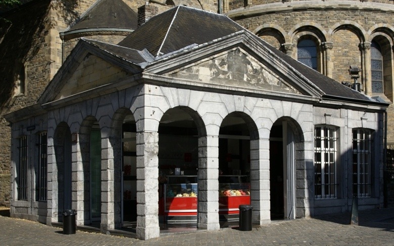 National monument no. 26967 - Graanmarkt 4, Maastricht, The Netherlands.